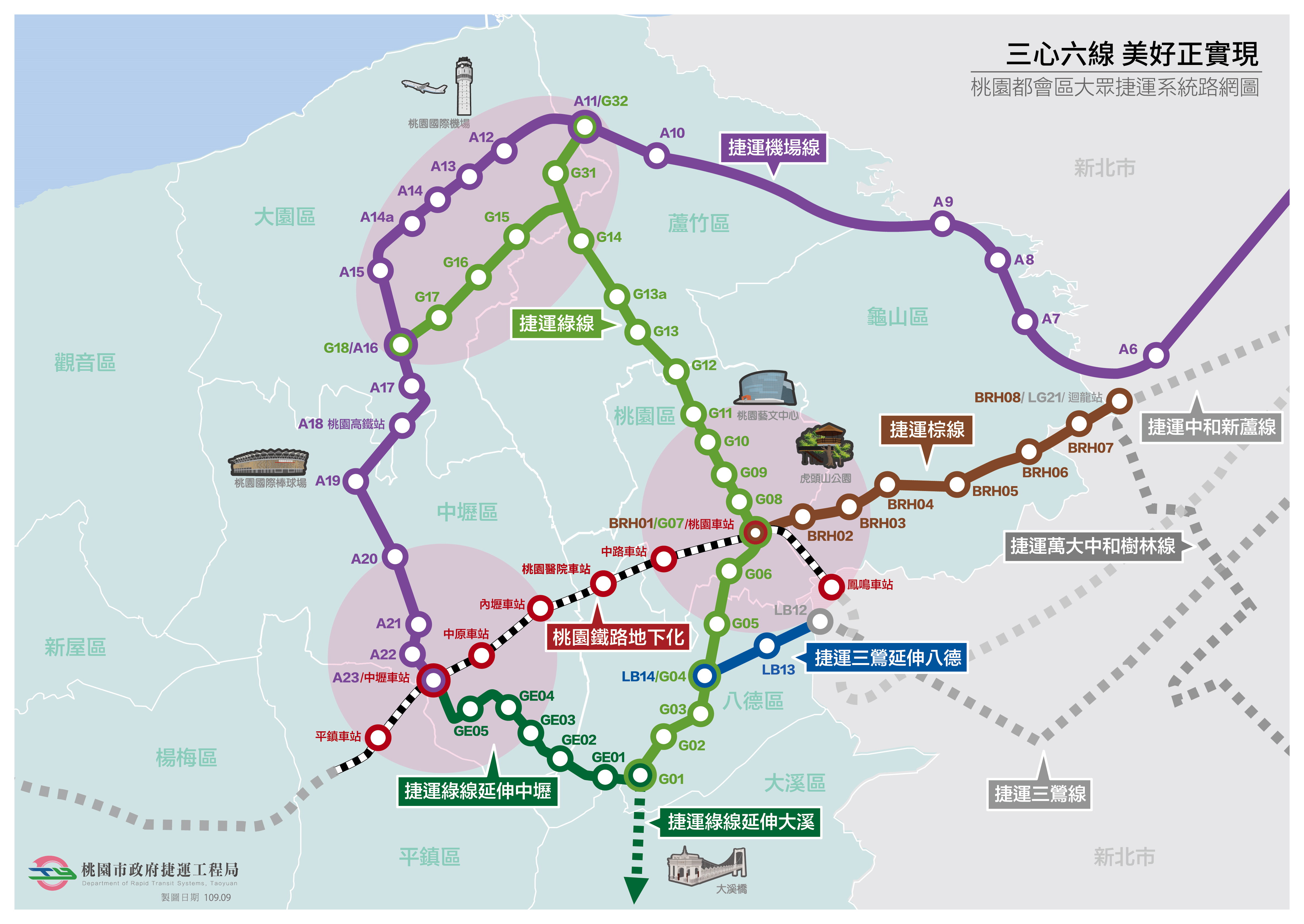 Taoyuan Mass Rapid Transit System plannig map